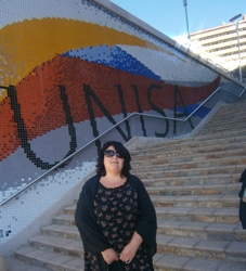 Writer and Human Rights activist